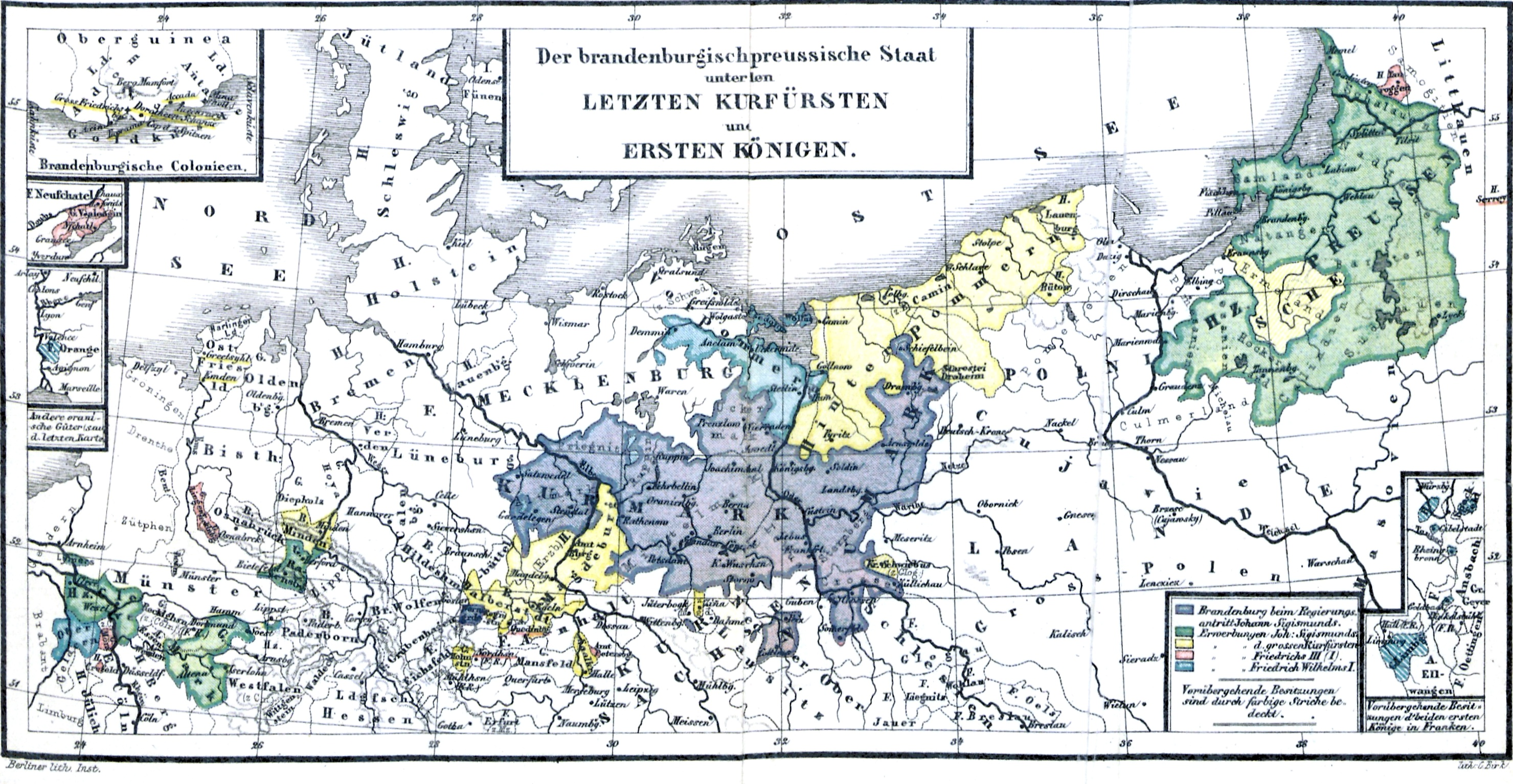 Image extracted from page 133 of Die Territorialgeschichte des brandenburgisch preussischen Staates, im Auschluss an zehn historische Karten übersichtlich dargestellt, Fix W. Original held and digitised by the British Library. Note: The colours, contrast and appearance of these illustrations are unlikely to be true to life. They are derived from scanned images that have been enhanced for machine interpretation and have been altered from their originals.